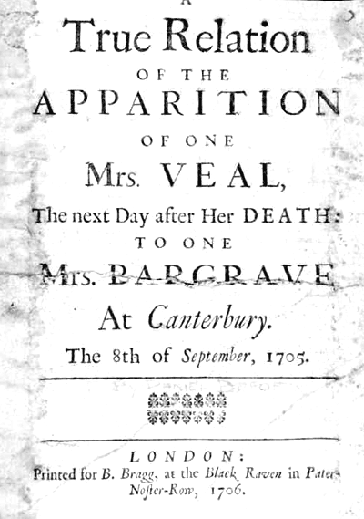 Frontispiece of pamphlet edition of "A True Relation of the Apparition of one Mrs Veal"